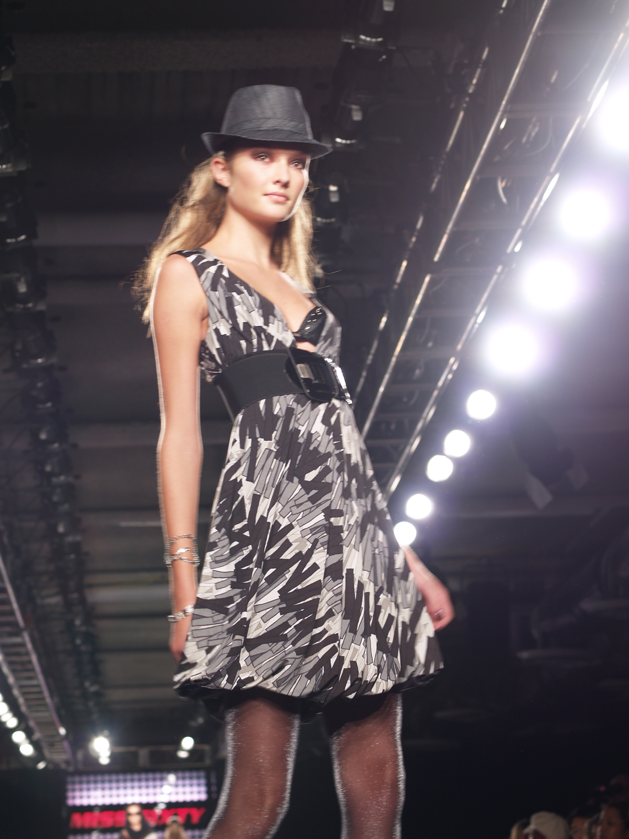 Solange Wilvert modeling for Miss Sixty, Fall 2007 New York Fashion Week.